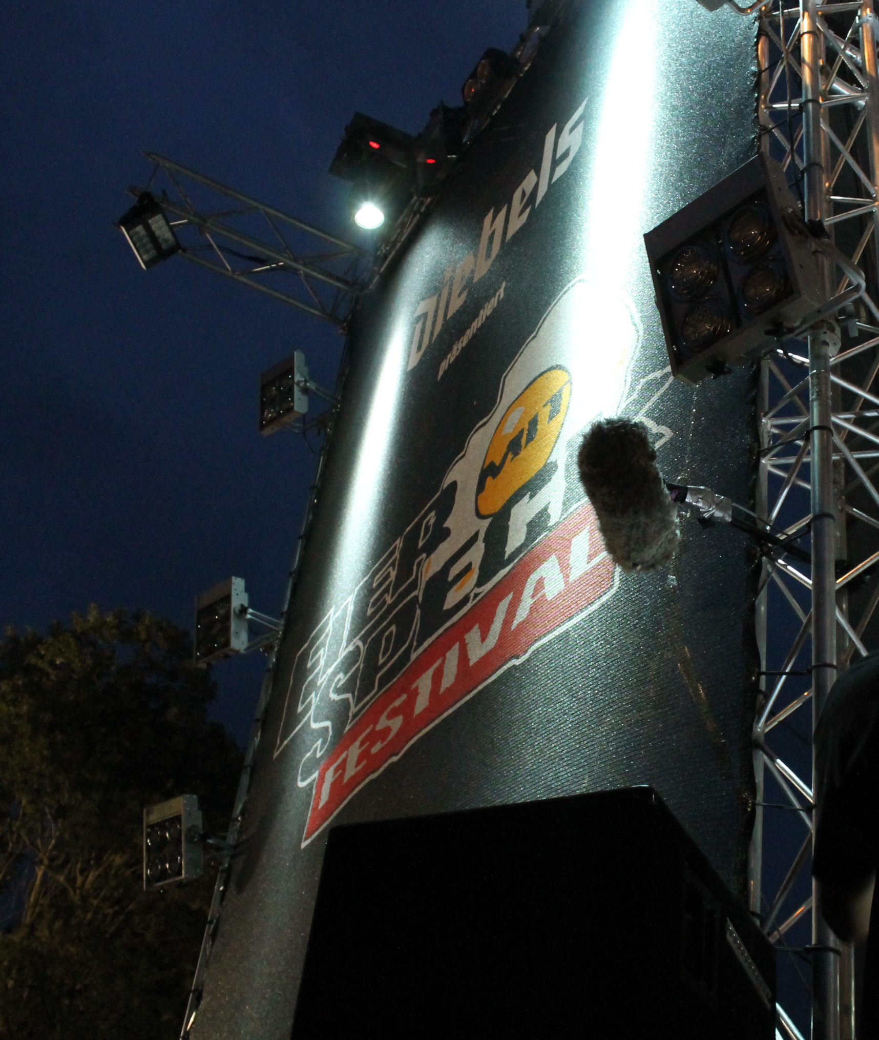 Eier mit Speck logo, shot during the festival.